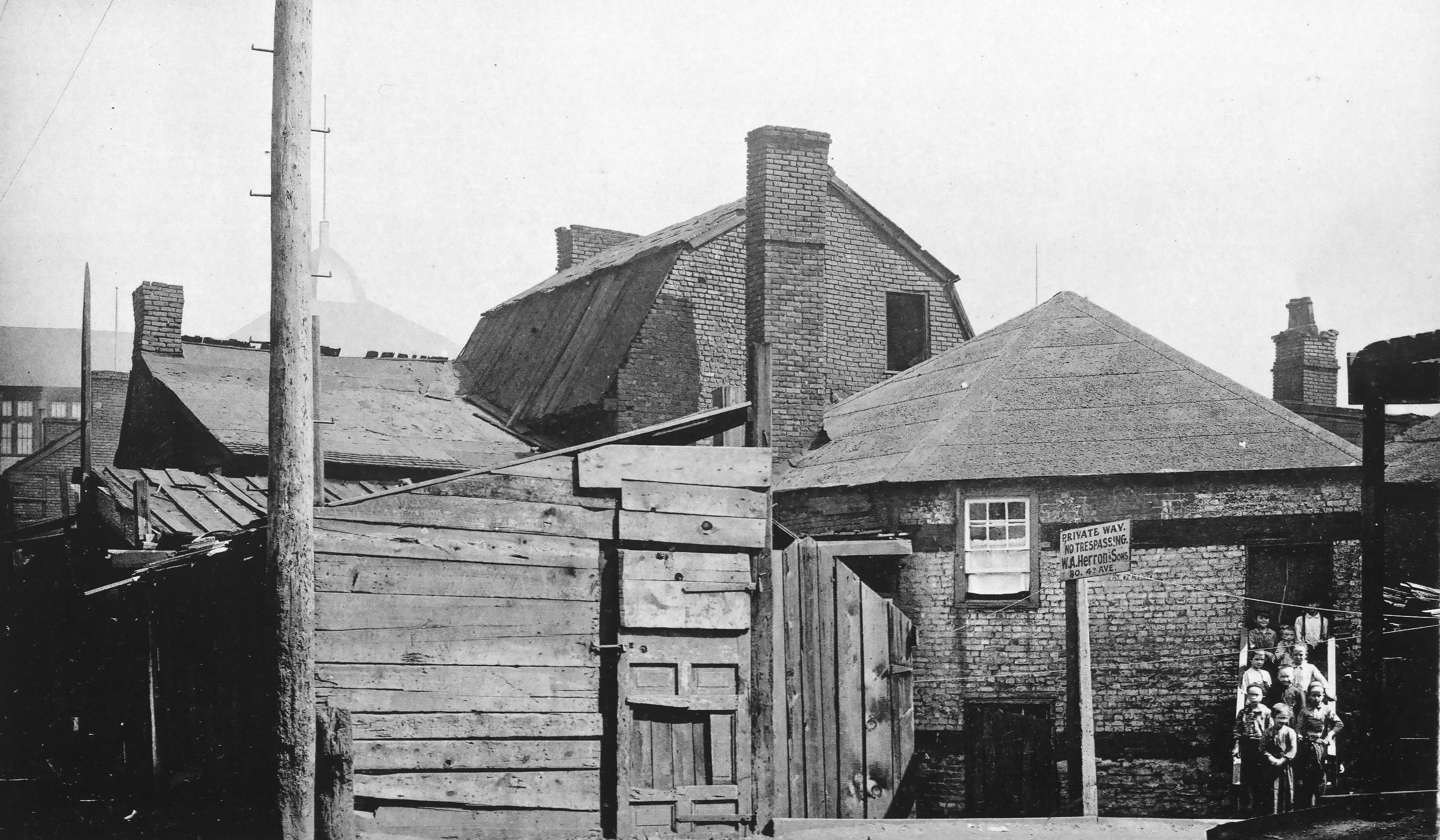 Fort Pitt Blockhouse circa 1893 when it was still used as a house.